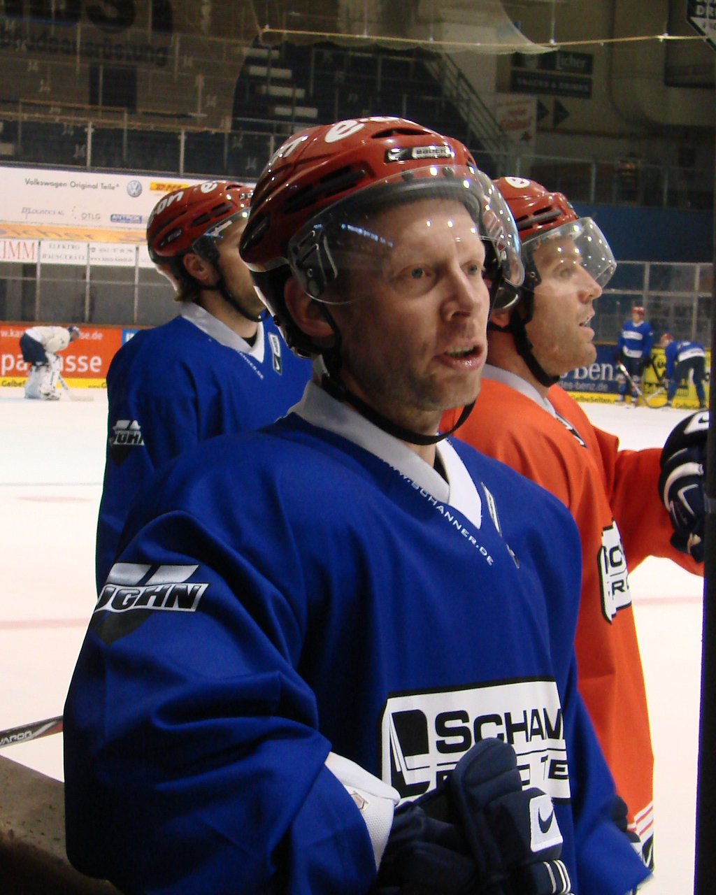 Ice hockey player Mike Pellegrims, Kassel Huskies